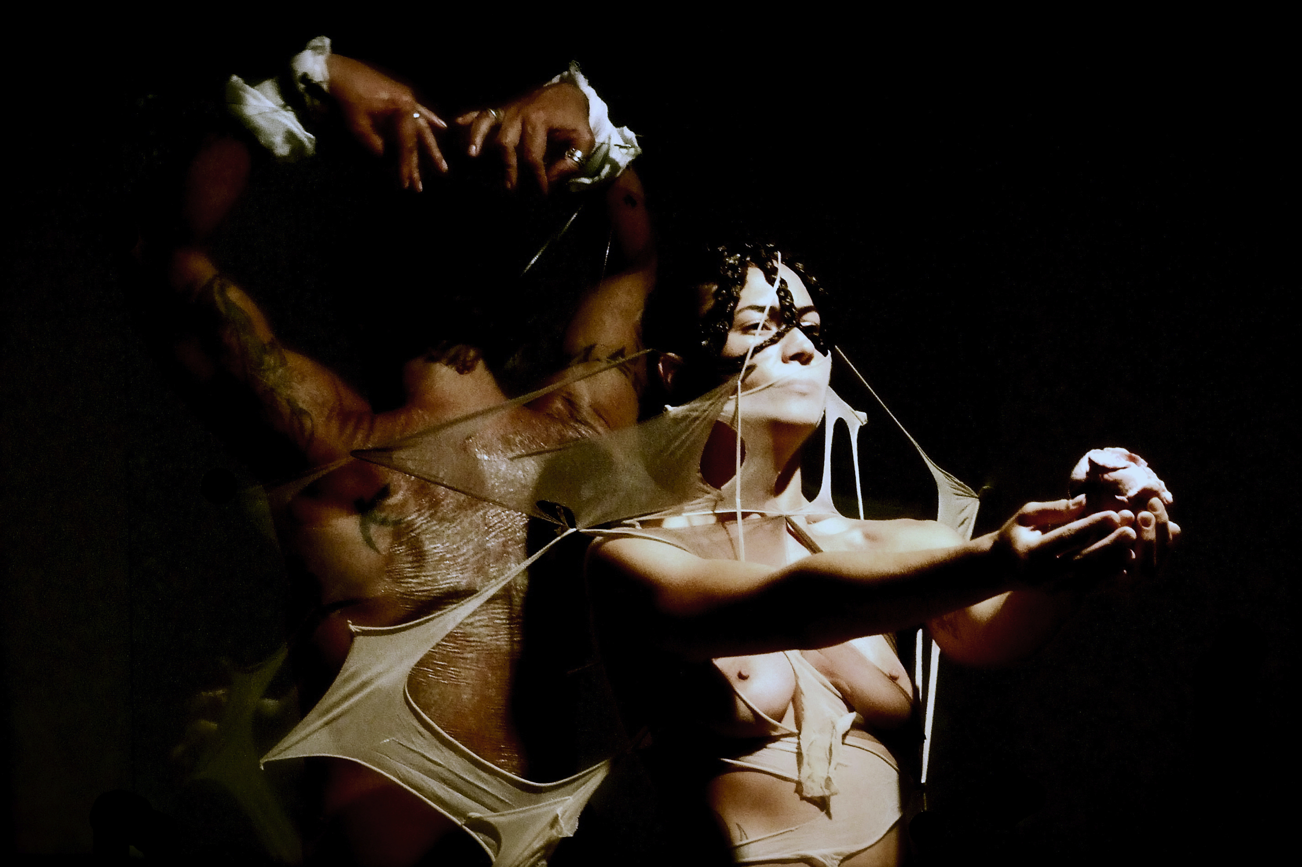 Performance BALADA CORPORAL Part I: Solid Body - Emotional Body, Homero Massena Gallery, Vitoria, Brazil TRAMPOLIM_ Platform for Live Art Photo: Sérgio Prucoli 2011 VestAndPage - Verena Stenke, Andrea Pagnes